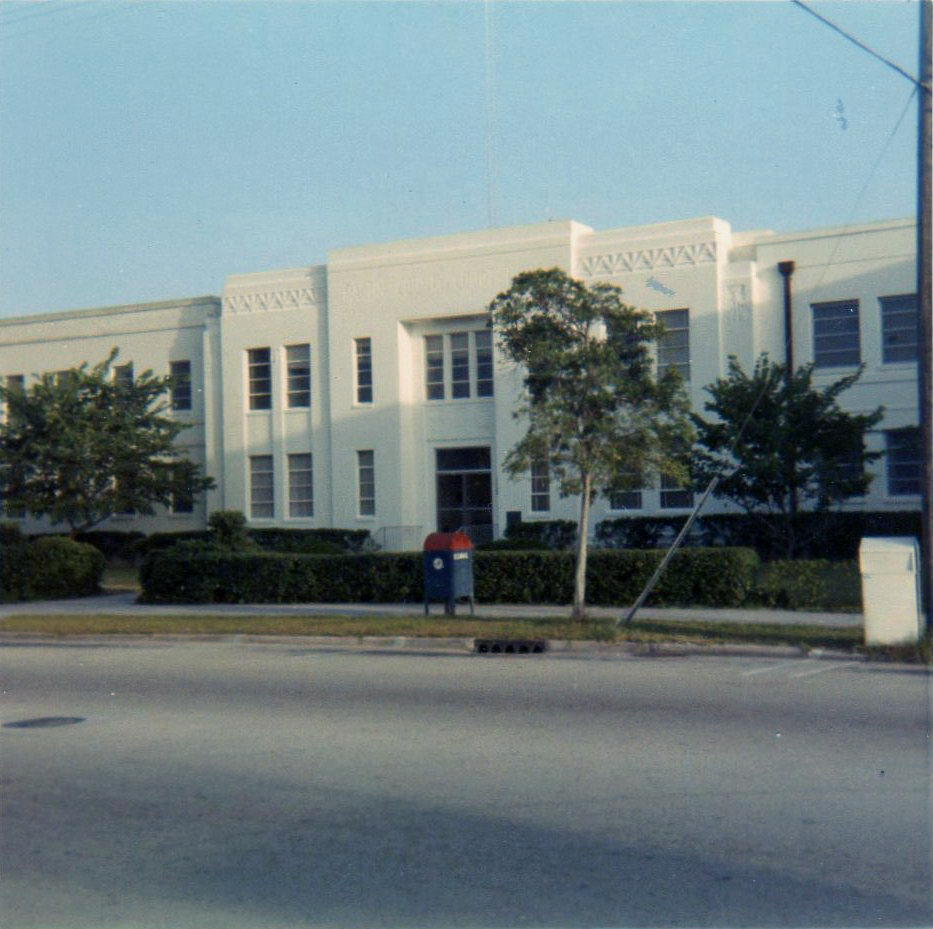 Martin County Courthouse, Stuart, Florida, 1969, the center portion is what remains now as the Old Martin County Courthouse, the wings on each side were demolished.